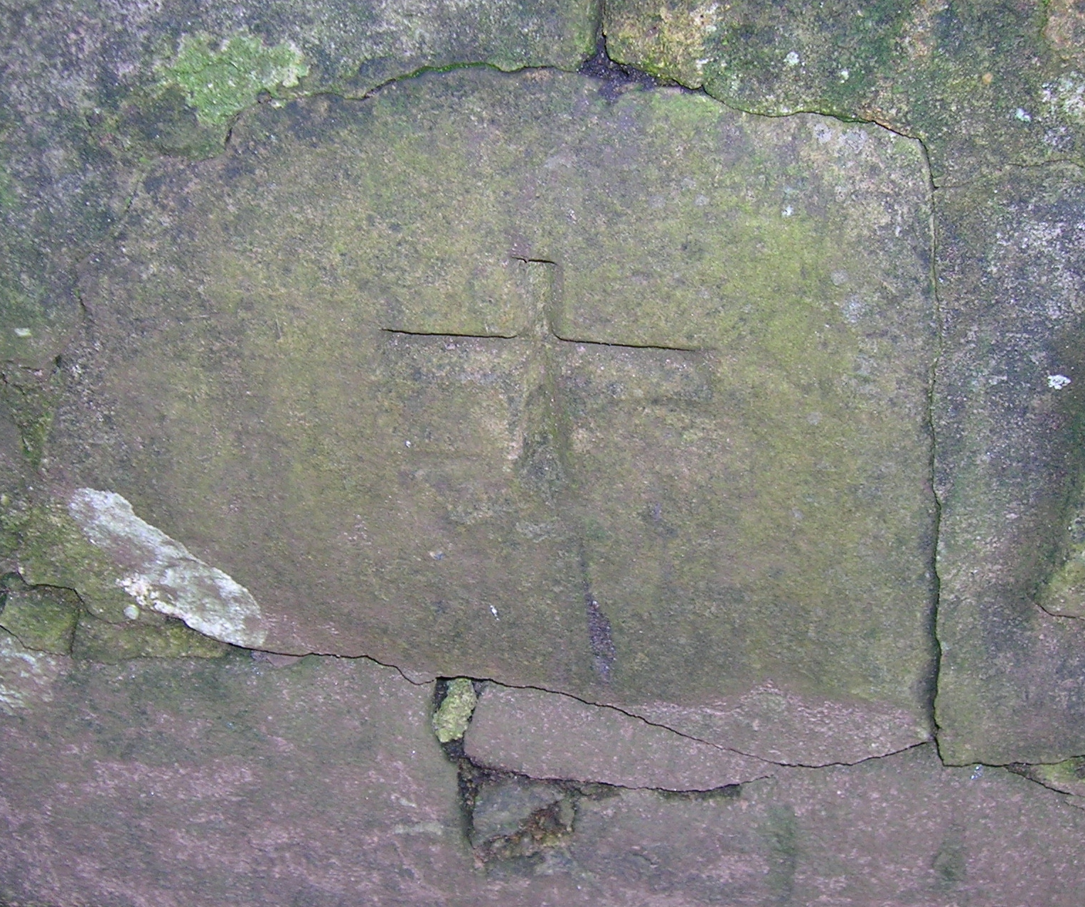 Carved cross boundary marker, Kirk Vennel, Irvine, North Ayrshire, Scotland. Near Saint Inan's Well.